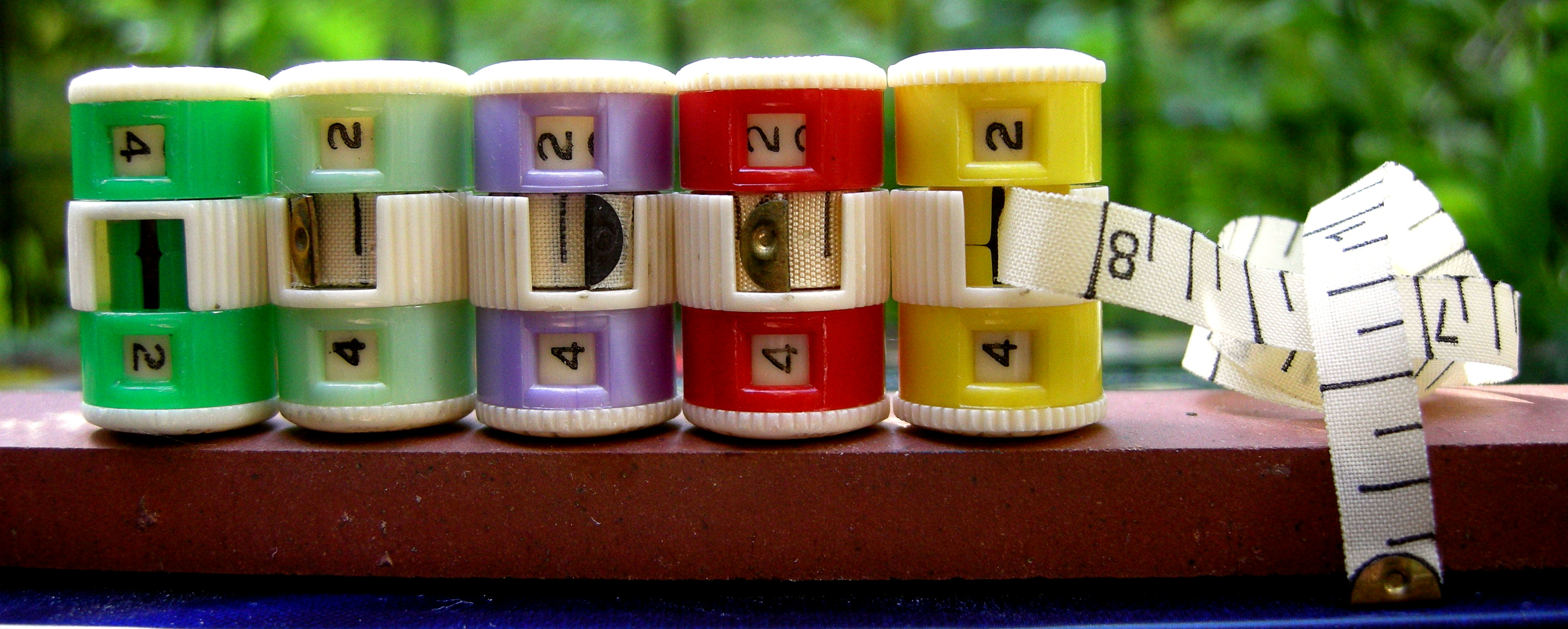 Compact luxury knitting row counters with tape measures manufactured in the 1960s.